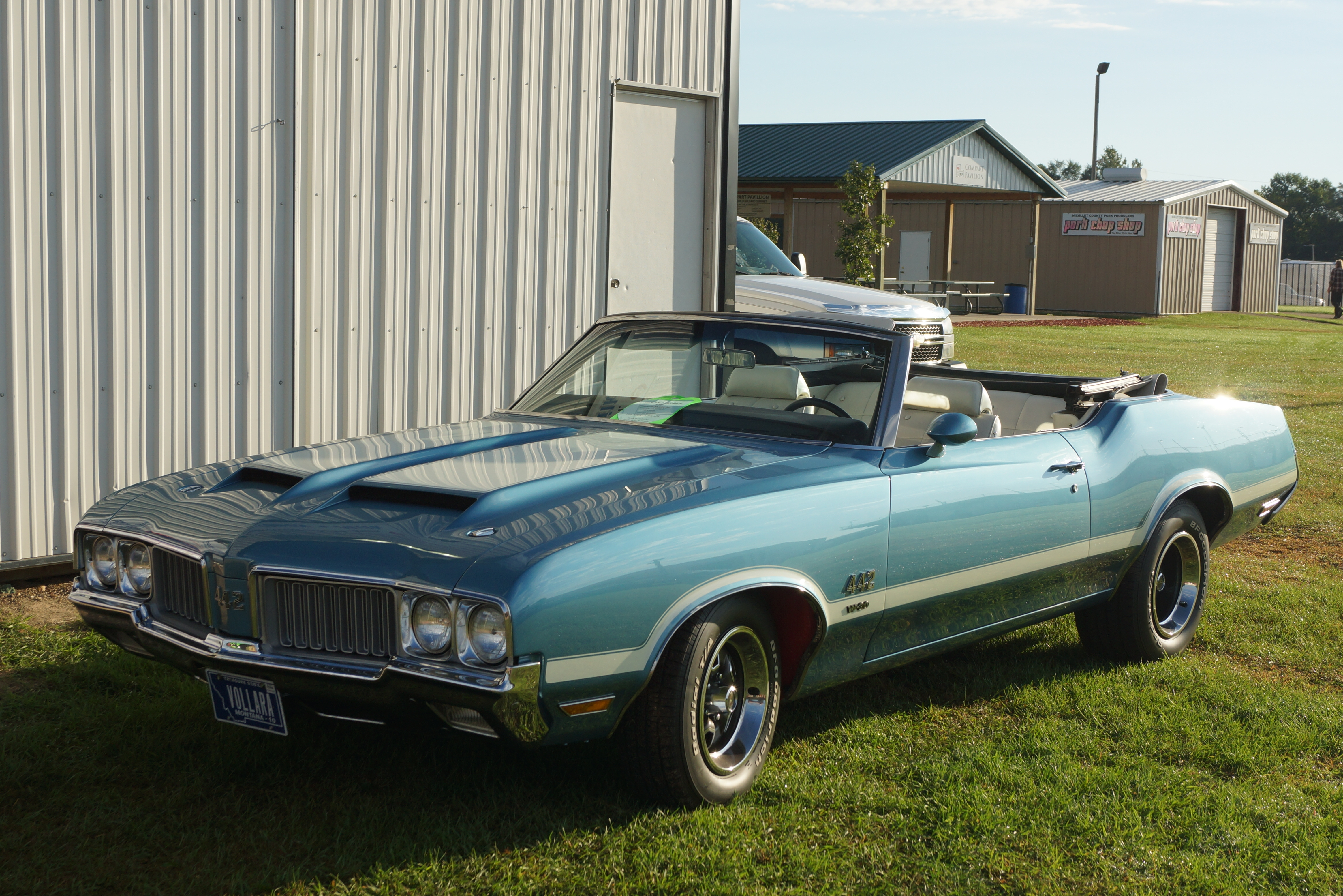 Auto Restorers Club of Southern Minnesota 40th Annual Car Show & Swap Meet Nicollet County Fairgrounds St. Peter, Minnesota September 2016 Click here for more car pictures at my Flickr site.